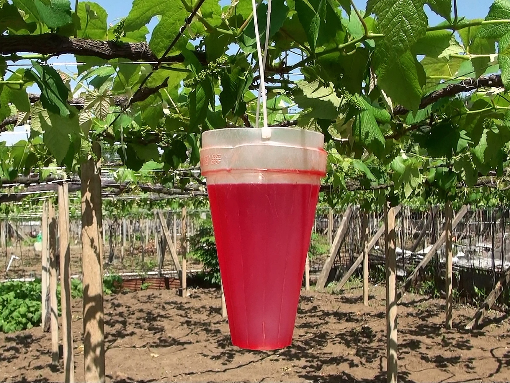 For colored gibberellin solution, a seedless grape（Delaware）、Kofu,Yamanashi,Japan